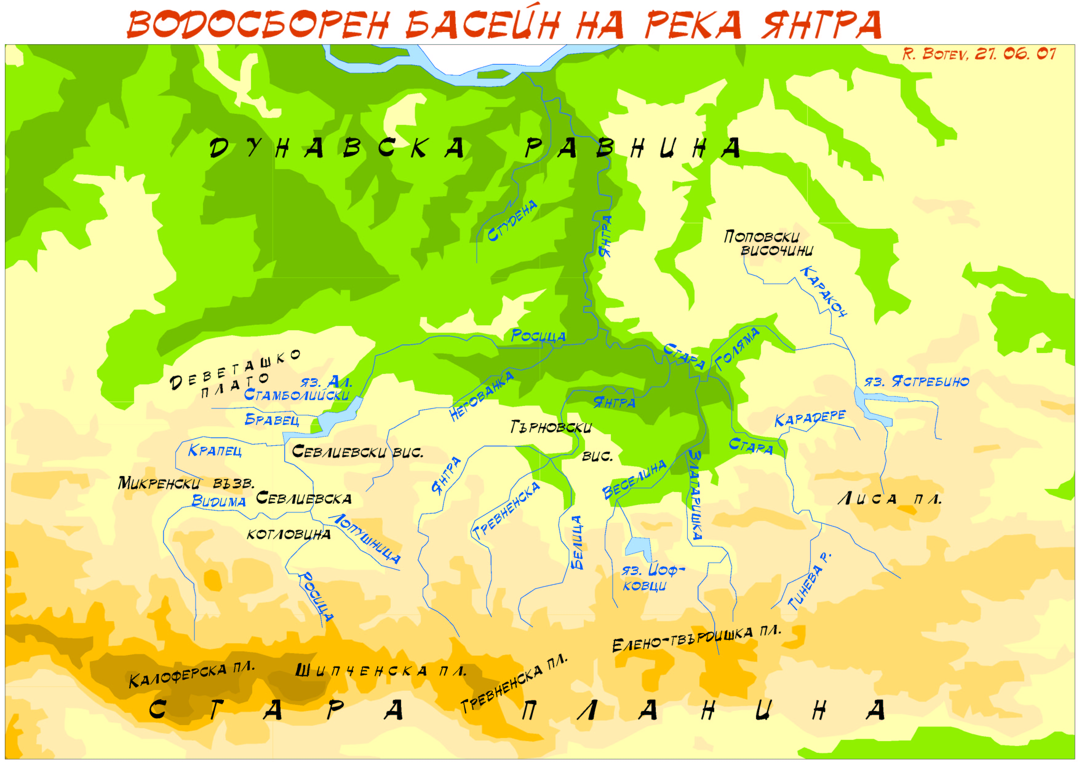 Map of Yantra Bassin in Bulgaria